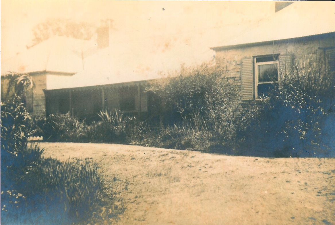 Porphyry House, Seaham. Pictured prior to the 1939 bushfire.